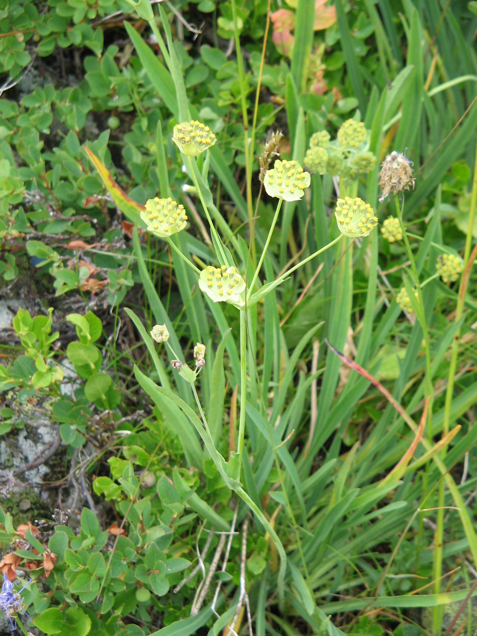 Bupleurum stellatum